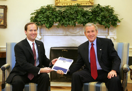 President George W. Bush receives a copy of the "Quiet Revolution" report Monday, Feb. 25, 2008, from Jay Hein, Director of the Office of Faith-Based and Community Initiatives, during a morning meeting in the Oval Office. White House photo by Joyce N. Boghosian